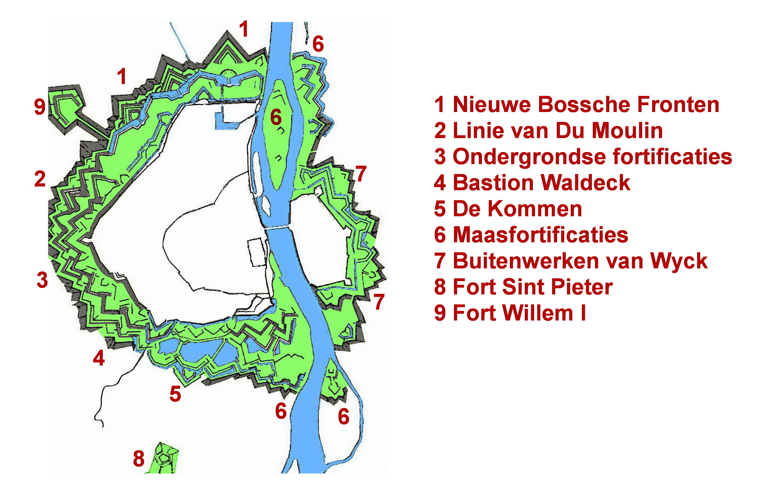 Stylized map of the fortified city of Maastricht, the Netherlands, showing the outer fortifications (16th-19th c).